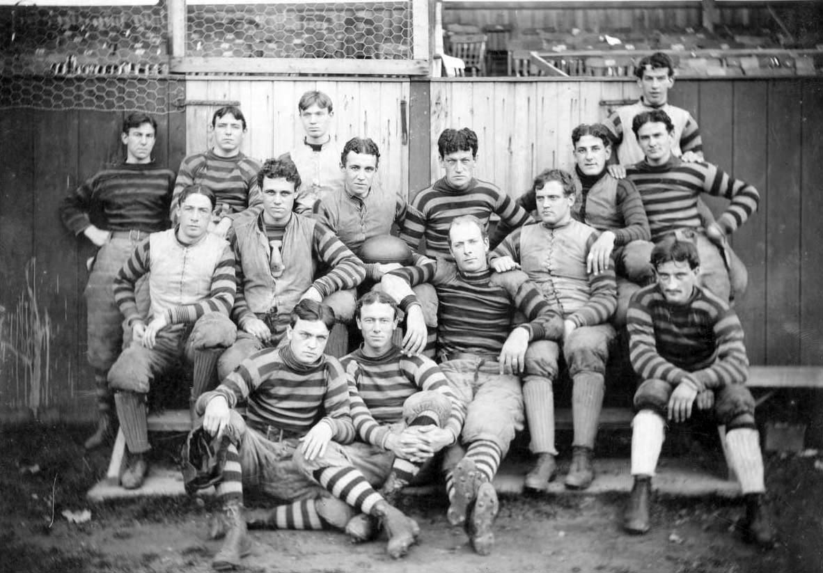 American football team of North Carolina University.